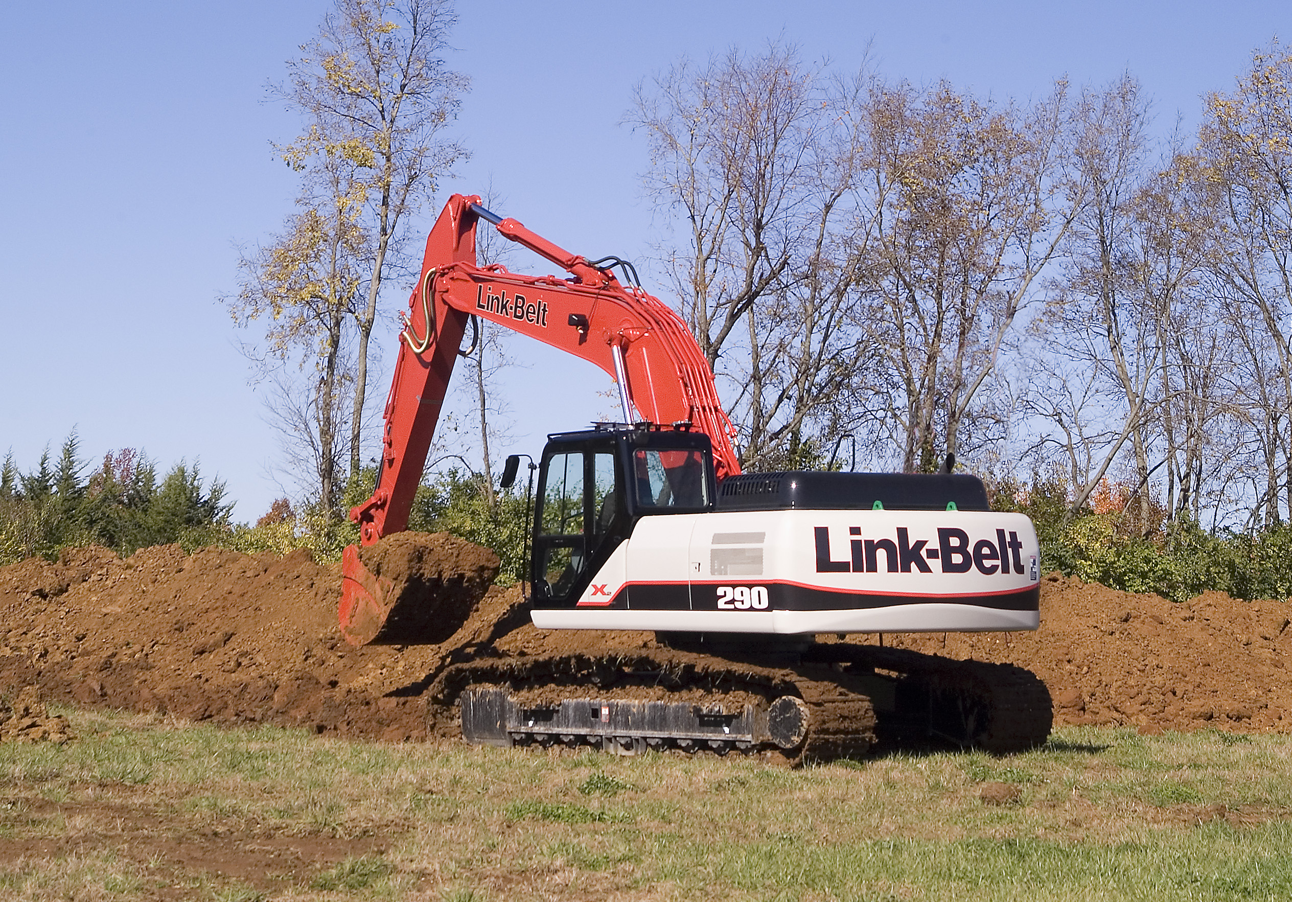 Link-Belt 290 X2 excavator